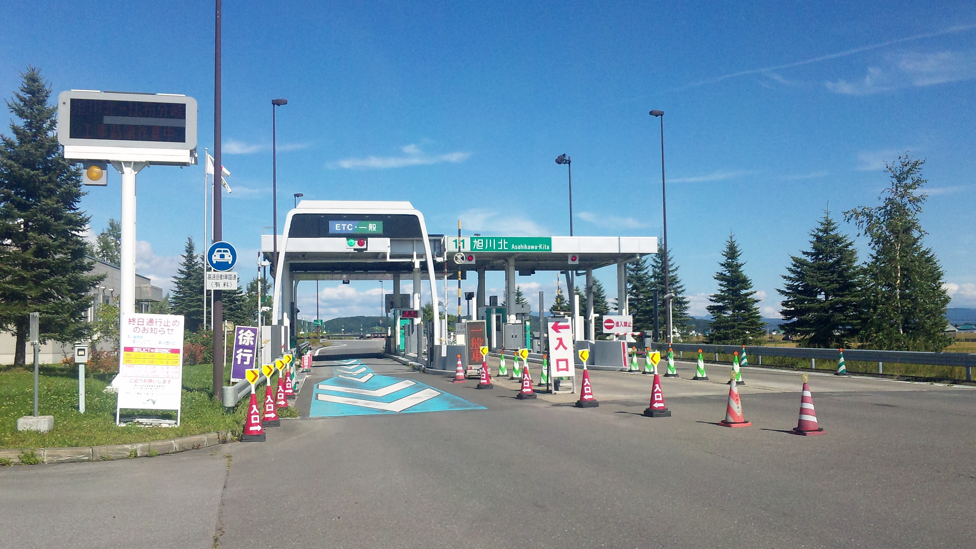 Asahikawa-Kita interchange (toll gate), Hokkaido, Japan